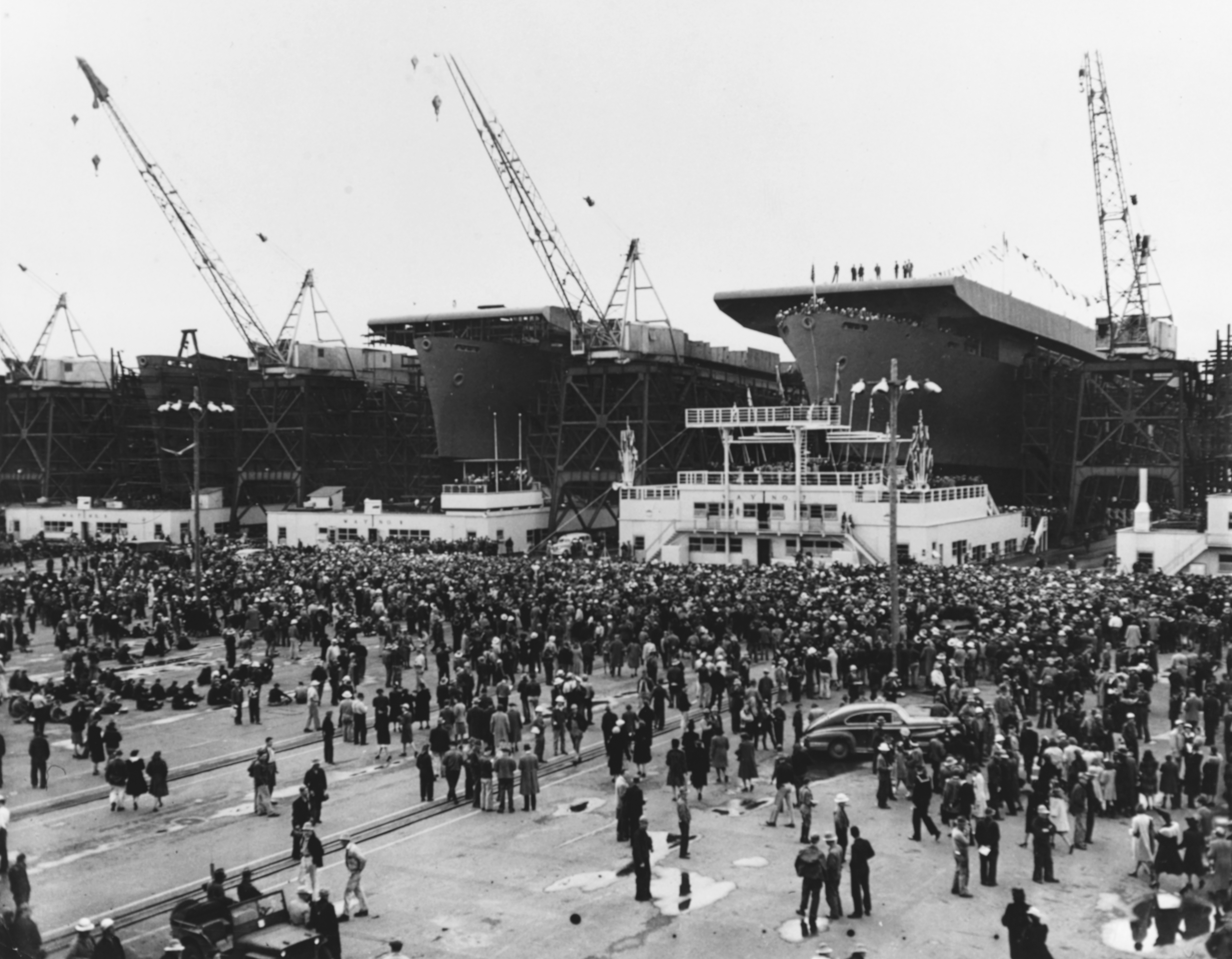 The U.S. Navy escort carrier USS Casablanca (ACV-55), at right, about to be launched at Henry J. Kaiser's shipyard, Vancouver, Washington (USA), on 5 April 1943. Two of her 49 sister ships are under construction at left. All escort carriers were redesignated "CVE" on 15 July 1943.